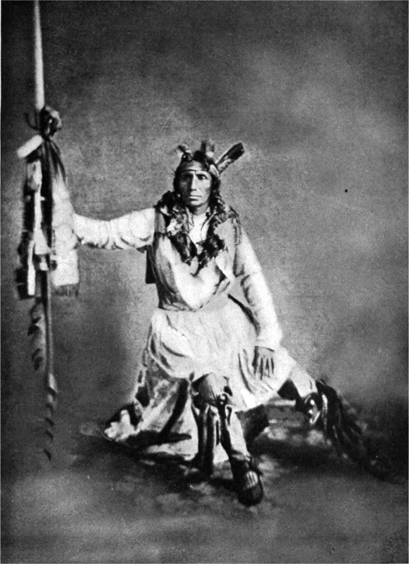 Little Crow (ca.1810-1863), Leader of the Sioux in the Minnesota Massacre, 1863 Illustration from The Indian Dispossessed by Seth K. Humphrey, 1906.